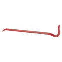 Crowbar